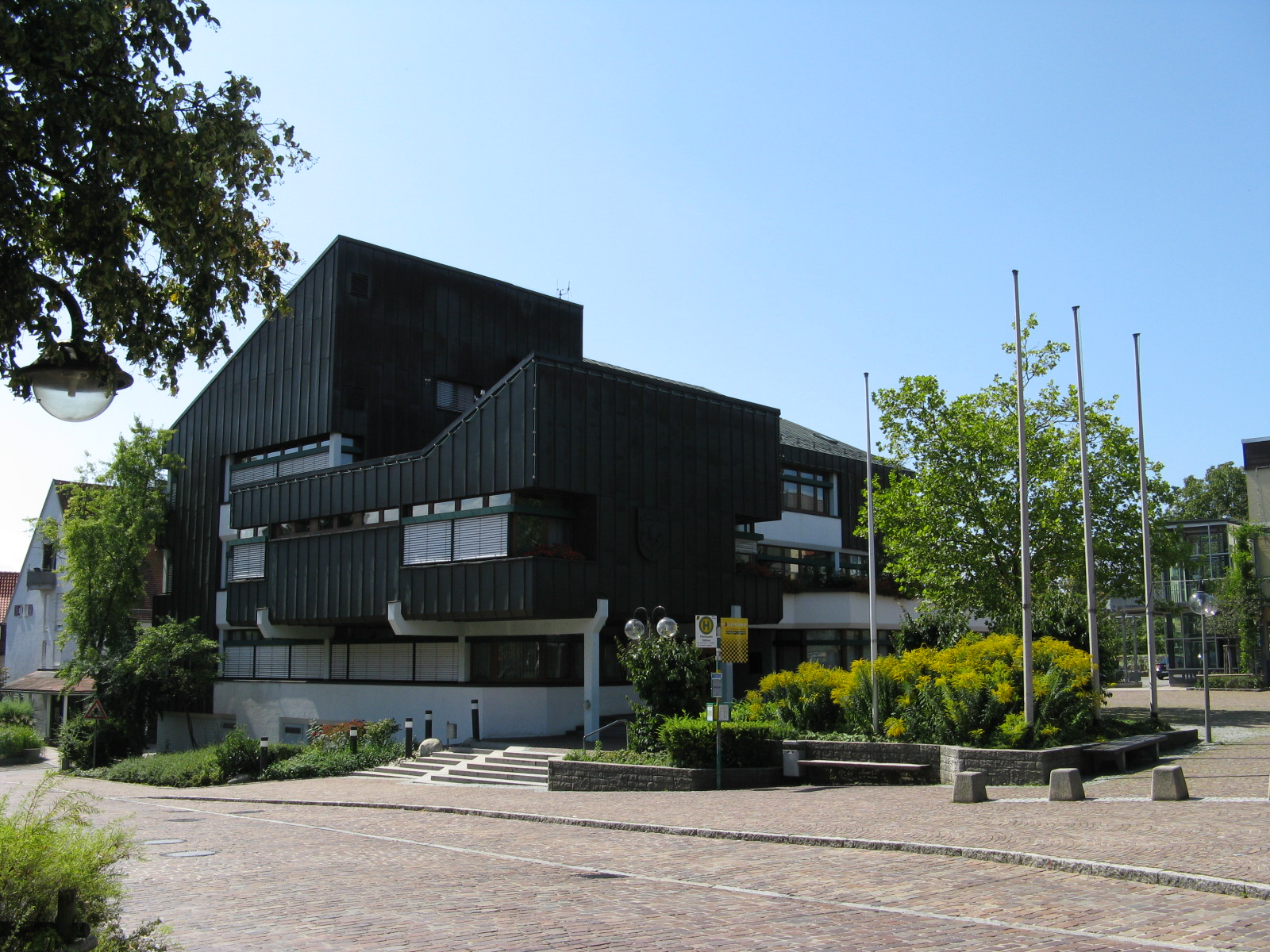 Town hall of Pliezhausen, Germany